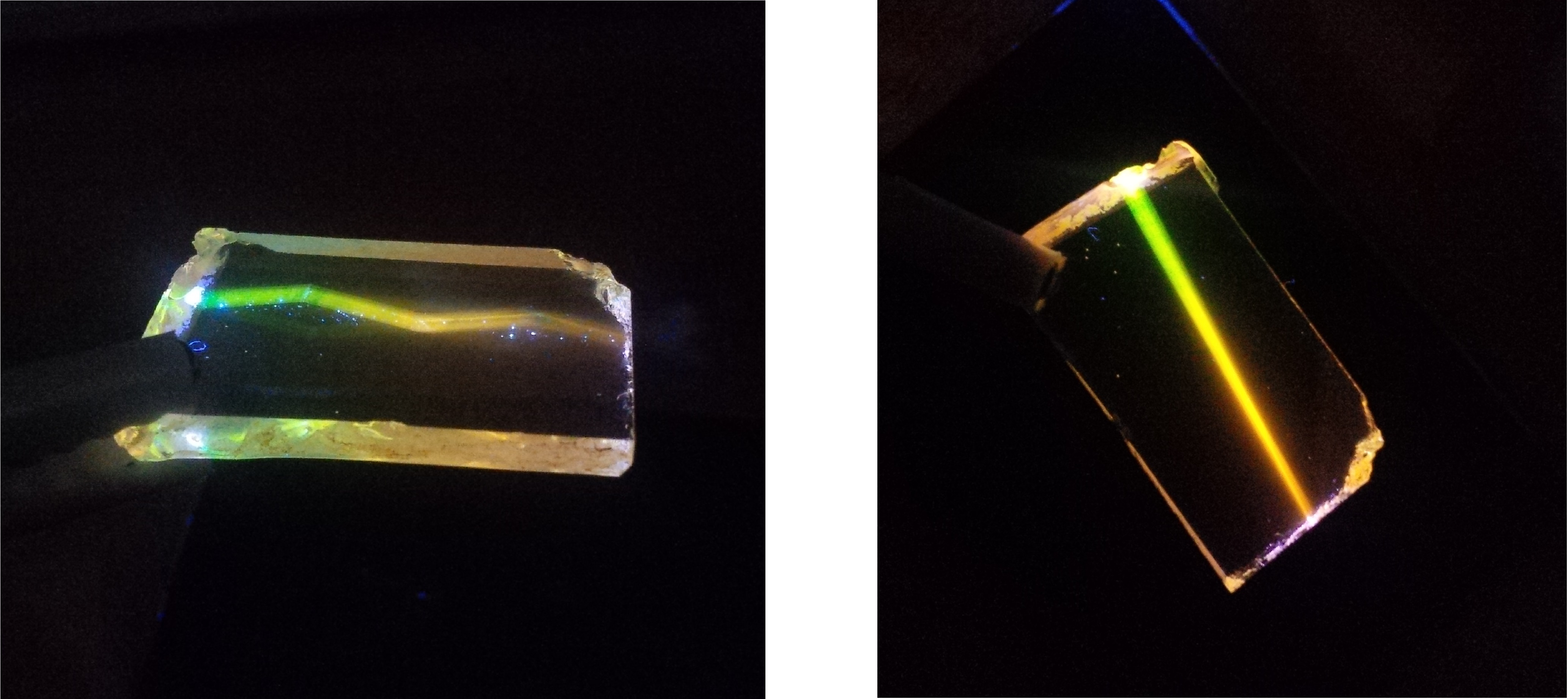 The figure below shows the sample transparent nanophase glass ceramics with nanocrystals of zinc oxide and erbium ions. The sample is excited by radiation of a UV laser. The beam of laser radiation experiences multiple total internal reflection. Yellow and green luminescence is connected with nanocrystals of ZnO and ions Er3+, respectively. Because of the heterogeneity of the glass-ceramic due to the influence of rare earth ions on its crystallization, the color of the luminescence changes as the propagation of laser radiation.